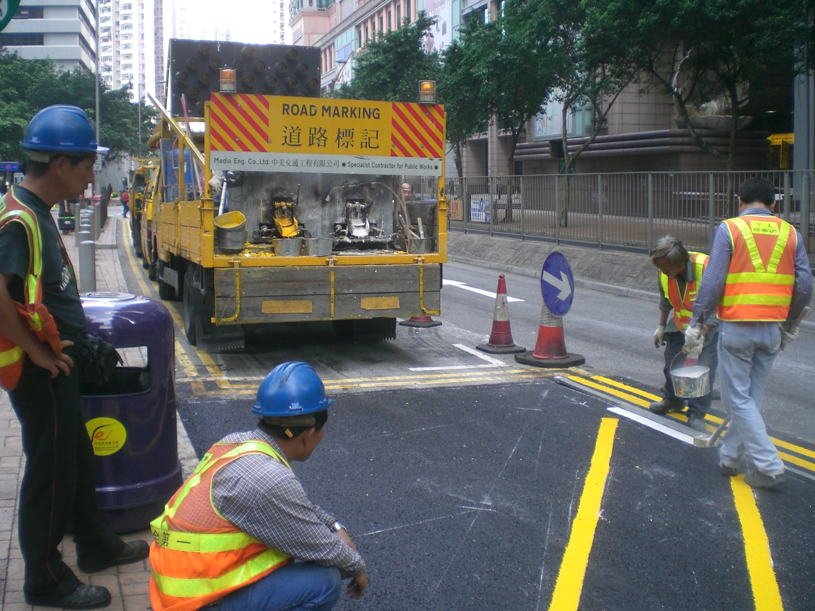 將軍澳